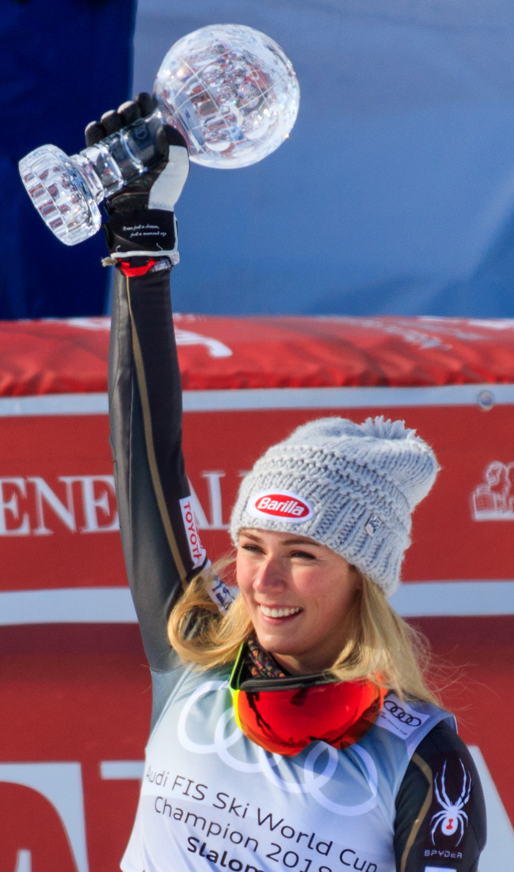 Mikaela Shiffrin in Åre 2018